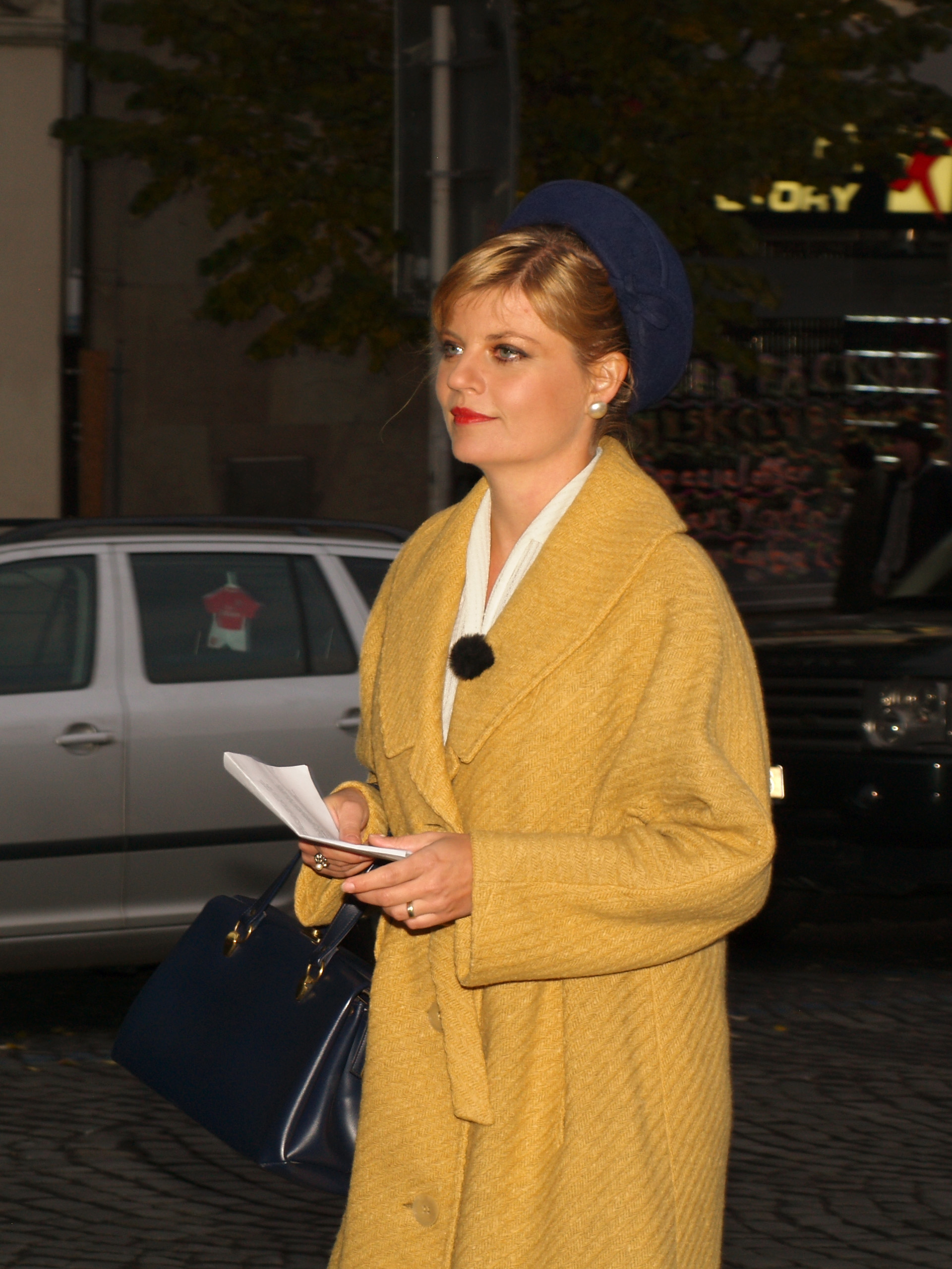 Czech television presenter Martina Vrbová